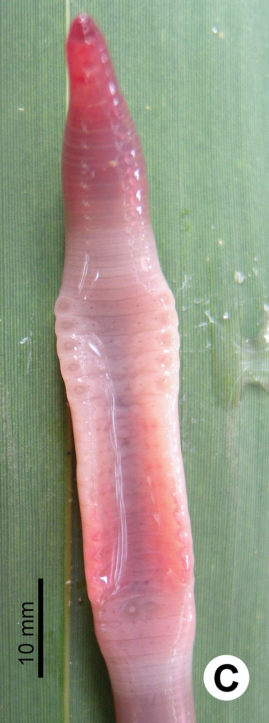 Coloration of newly collected Glyphidrilus chiensis paratype CUMZ 3235 just after the first preservation step in 30% (v/v) ethanol.